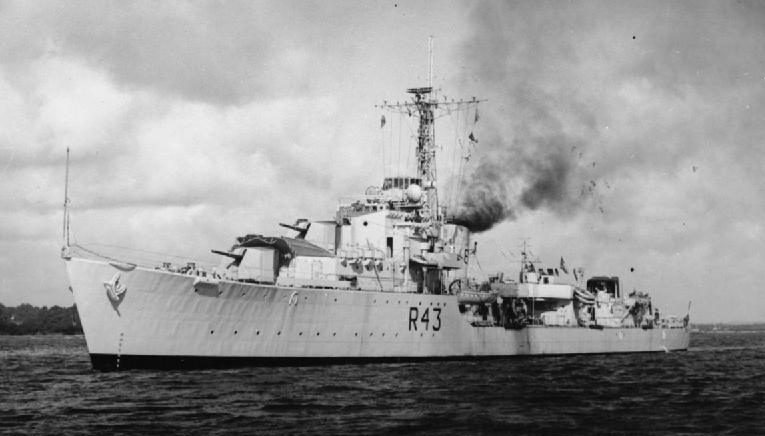 Photograph of British C class destroyer HMS Comus.